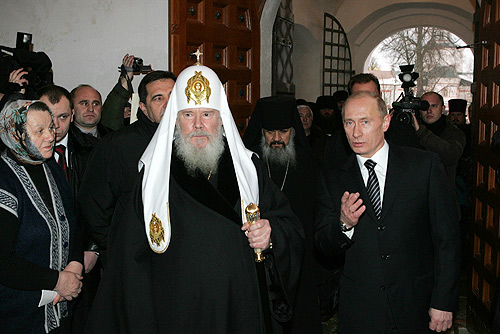 VALDAI IVERSKY MONASTERY, NOVGOROD REGION. With Patriarch of Moscow and All Russia Alexii II before the start of a service in the Iversky Cathedral.